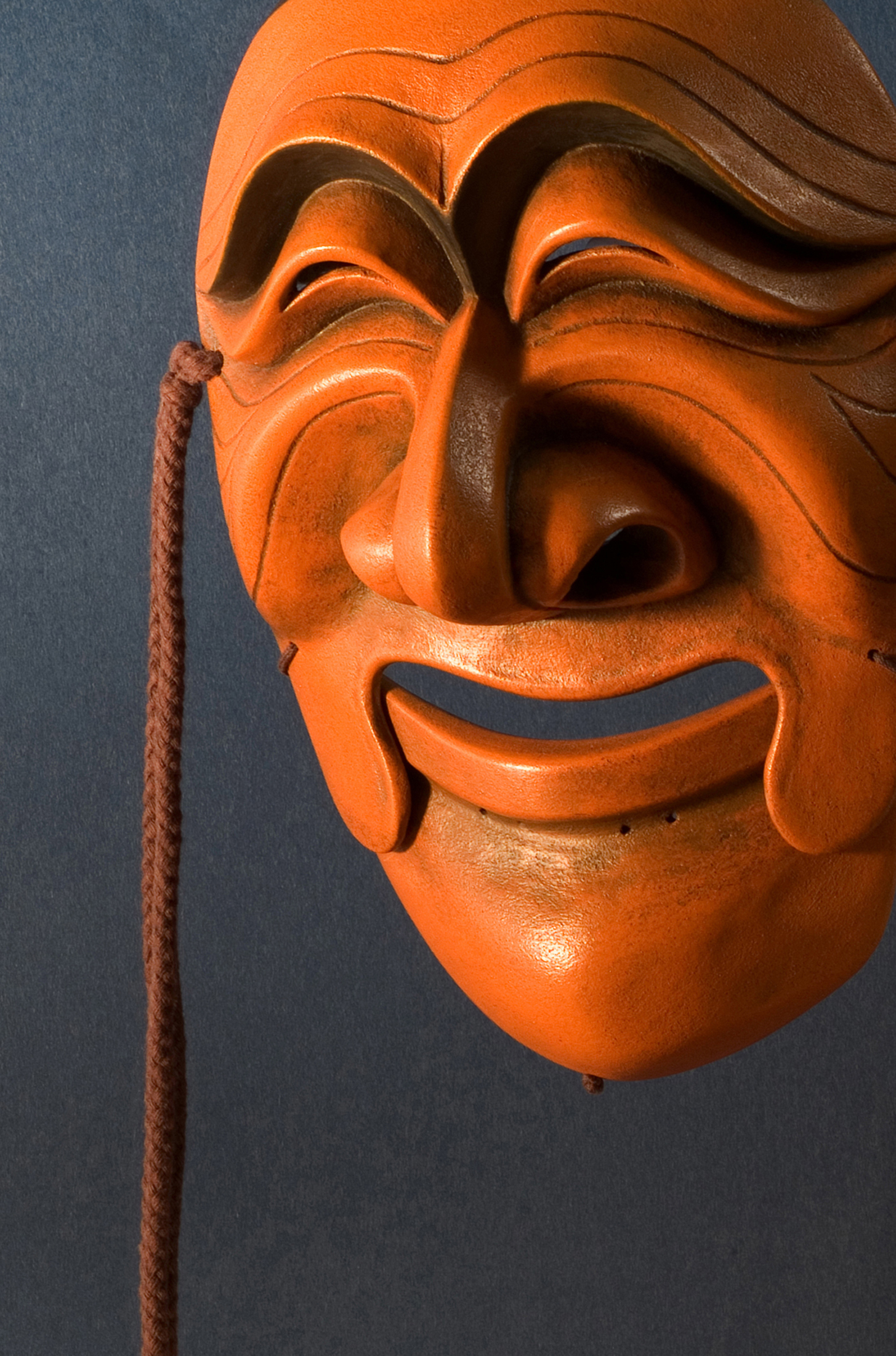 The Mask that is used for an ethnic dance performed in korean Andong Hahoe Village